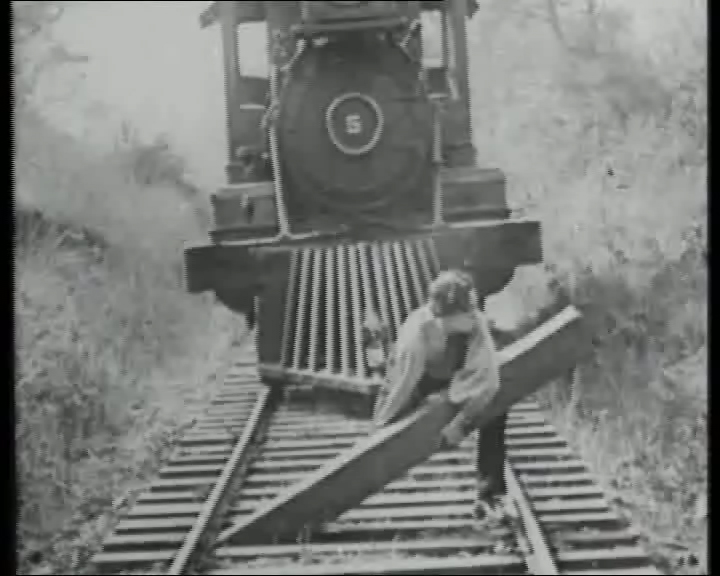 Scene from the movie The General. 1926.